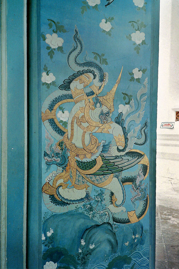 Painting of Garuda on entrance door to Ubosot, Wat Suthat, Bangkok, Thailand.